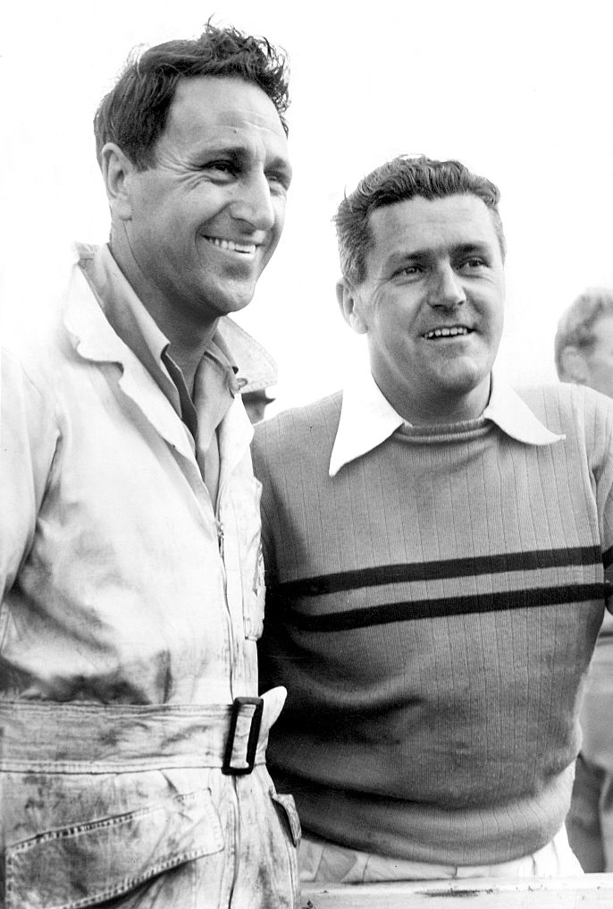 Mechanic, Ern Sealiger, left, congratulates Stan Jones after he won the 50 mile Victorian Trophy Race, at Fisherman's Bend today, 6 October 1953.